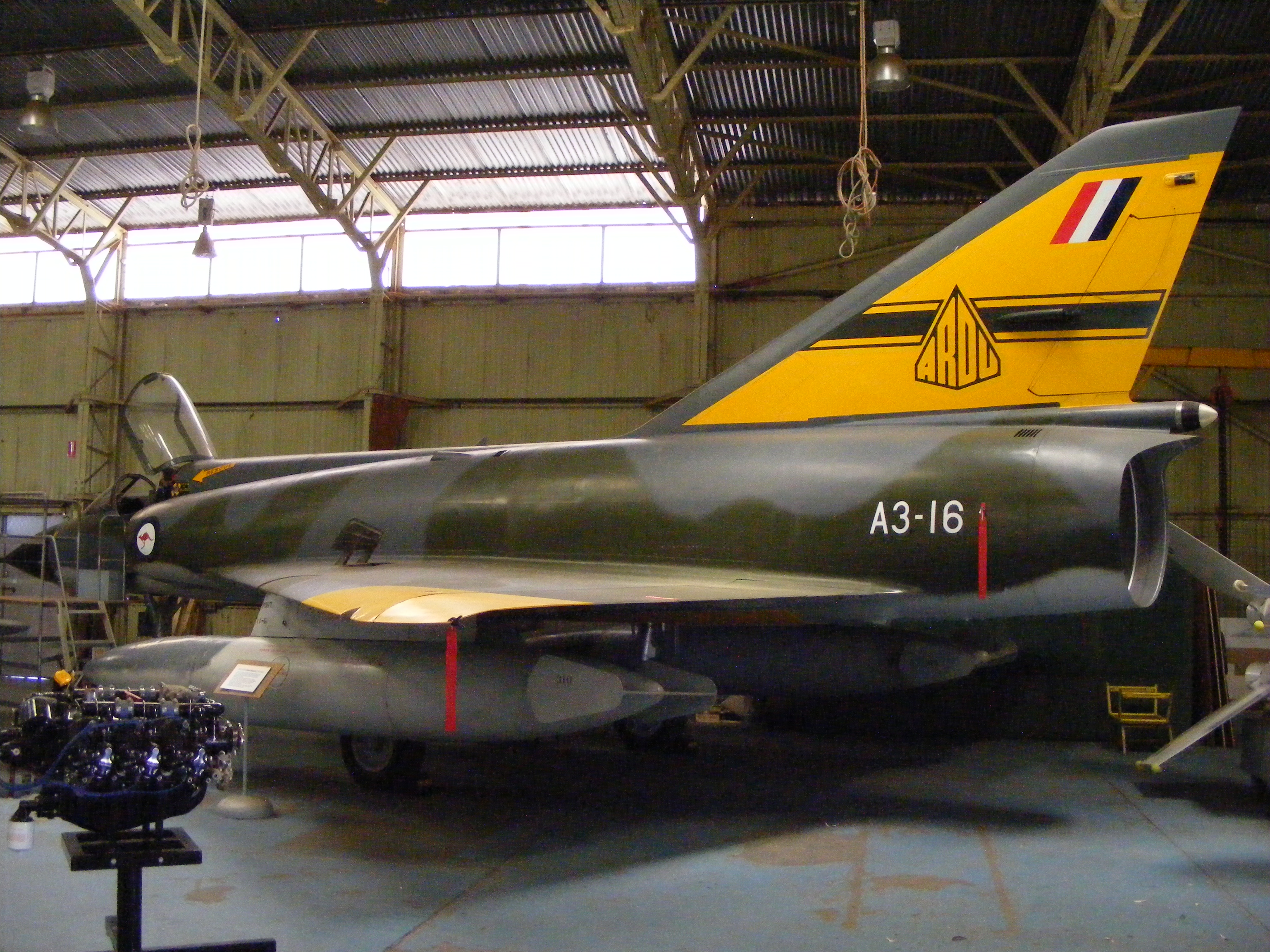 Dassalt Mirage III (A3-16) on static display at the the Classic Jets Fighter Museum, Parafield airport, Adelaide, South Australia. This plane only flew until the early 1970s due to a wheels-up landing at Tullmarine Airport, Melbourne.